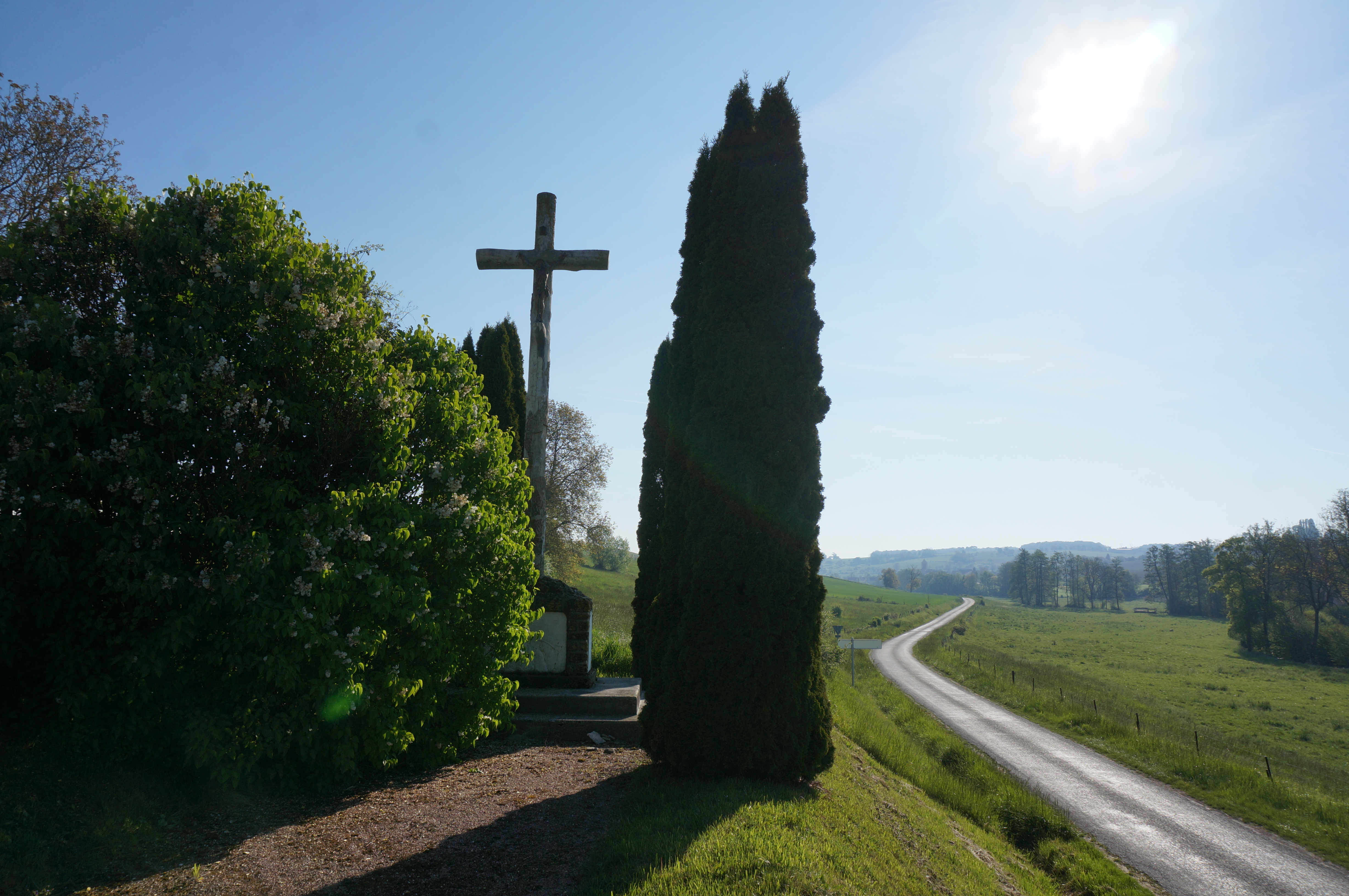 Monument_De_La_Verdure.